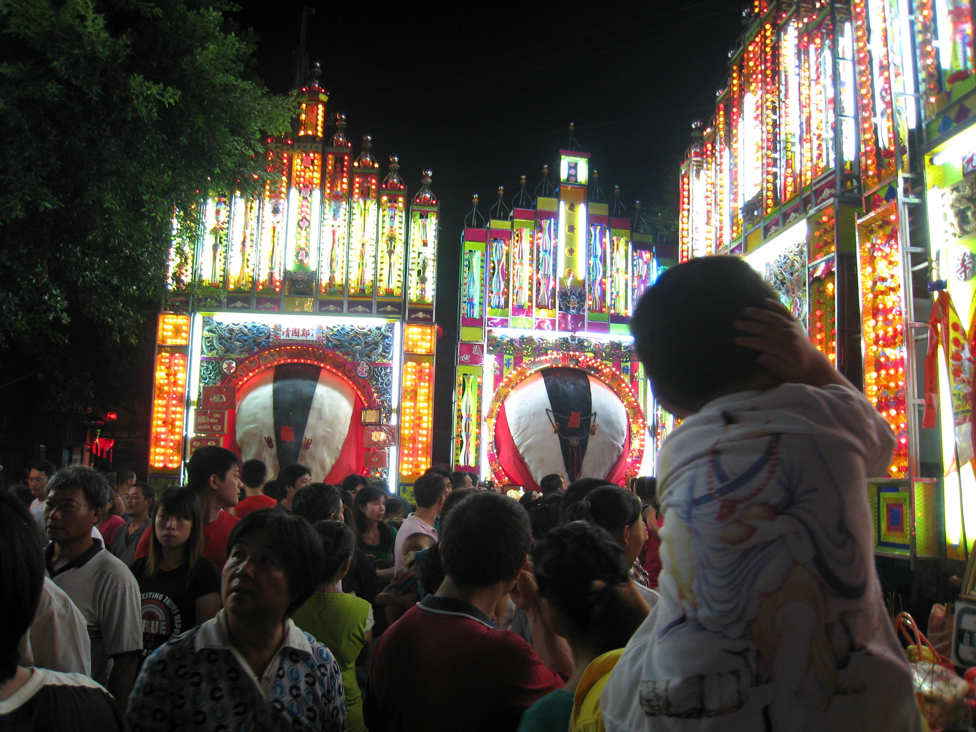 Ghost Festival Ritual（Taoyuan）.